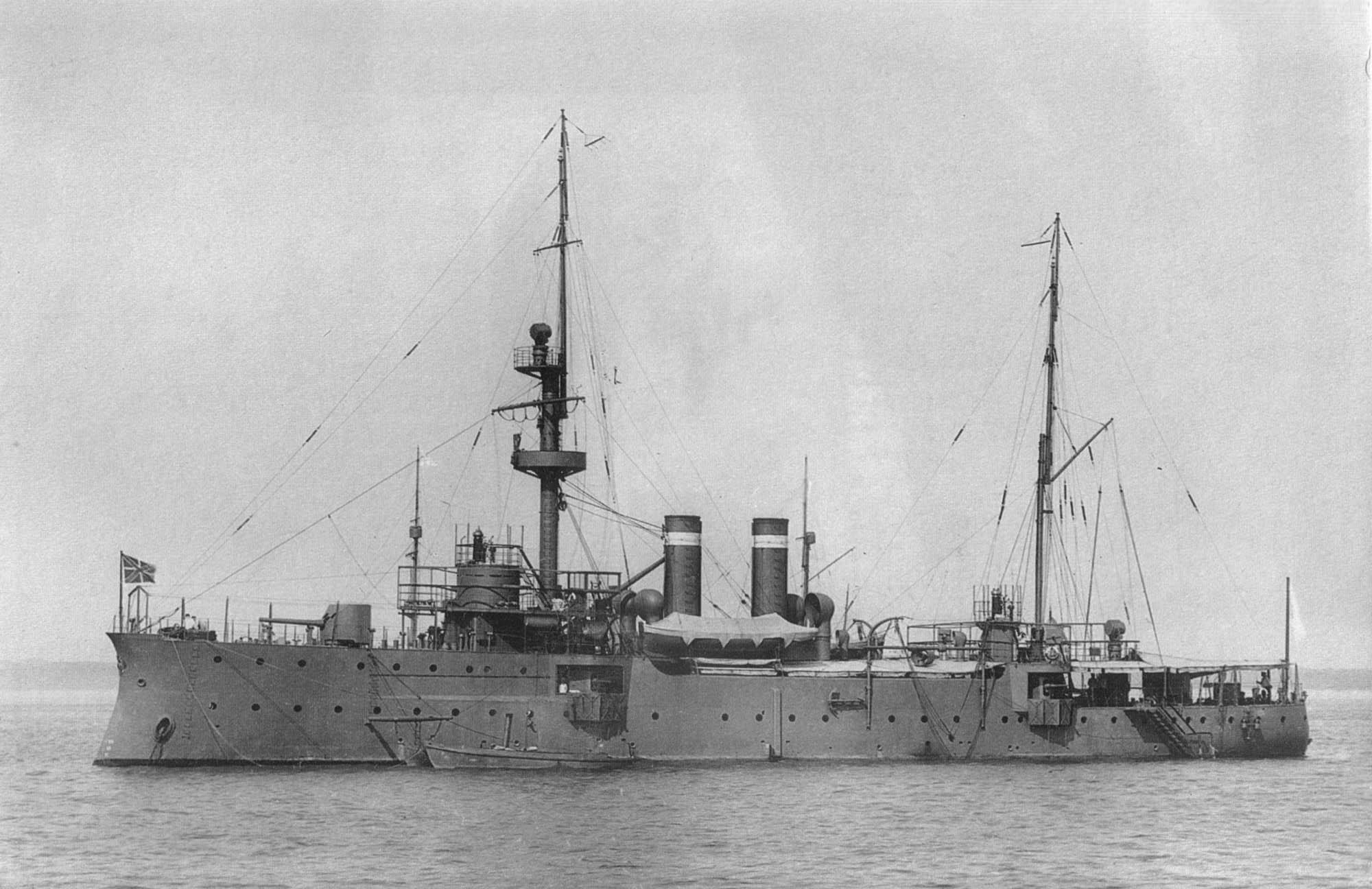 Imperial Russian gunboat Bobr (II). Later German Biber, Estonian Lembit.